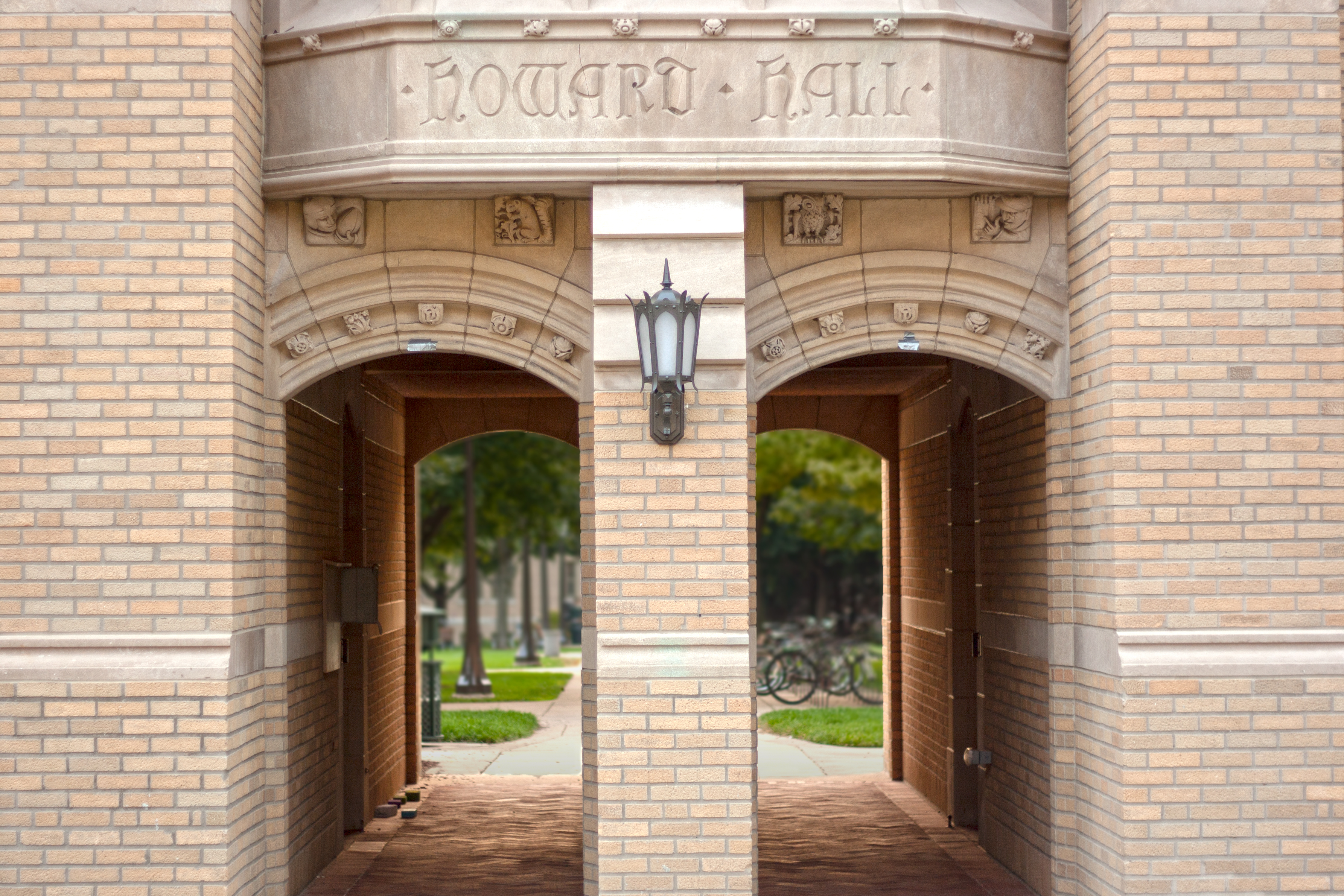 Howard Hall, a female dormitory at the Univeristy of Notre Dame